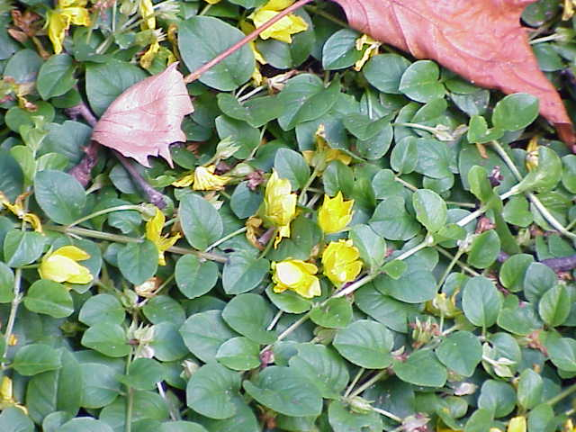 Species: Lysimachia nummularia Family: Myrsinaceae Image No. 1